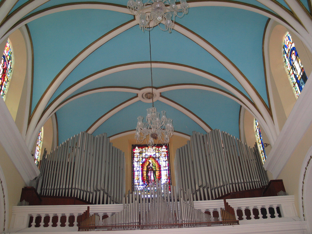 The pipe organ at the Catedral de Nuestra Senora de la Guadalupe (Ponce Cathedral) in Ponce, Puerto Rico